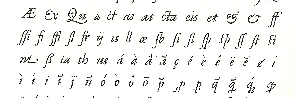 ligatures made by Robert Granjon, 16th century type-cutter